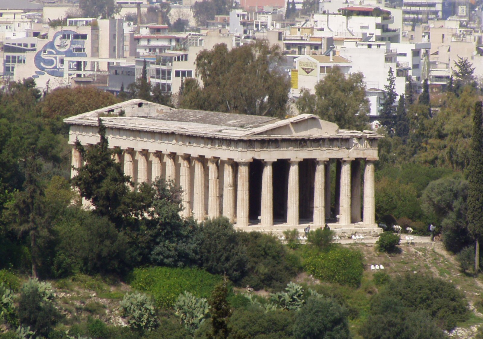 This is the Temple of Hephaestus in Athens.